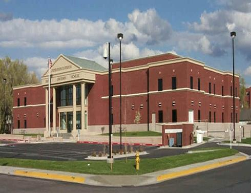 Photograph of the Pocatello, Idaho, Federal Building & U.S. Courthouse, in the United States District Court for the District of Idaho